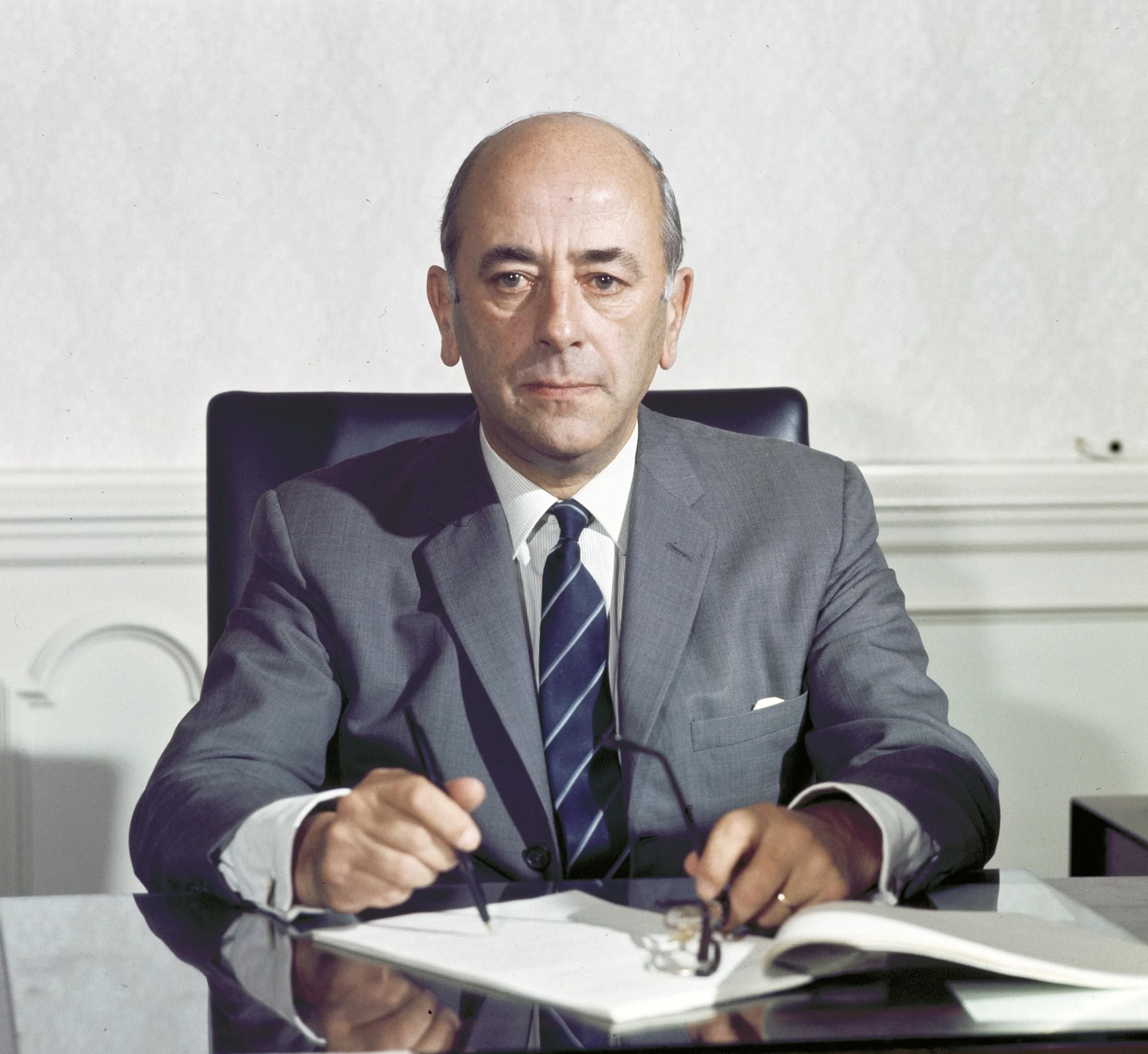 Adri van Es (1913-1994) was a Dutch vice admiral and politician.